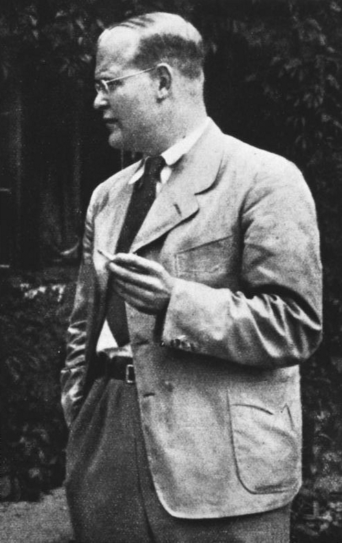 Dietrich Bonhoeffer, German Lutheran pastor and theologian